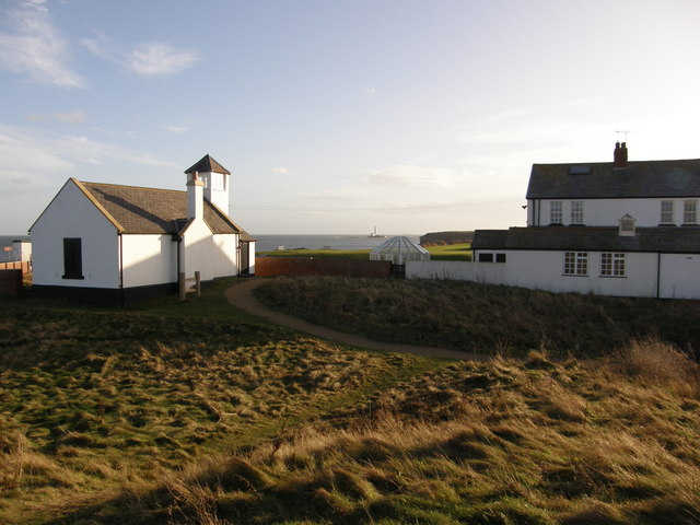 Watch House Museum and Houses - Seaton Sluice The watch house was built in 1880 and closed in 1990. It is now a museum which is open on Sundays between 2pm and 4.30pm during June to September.